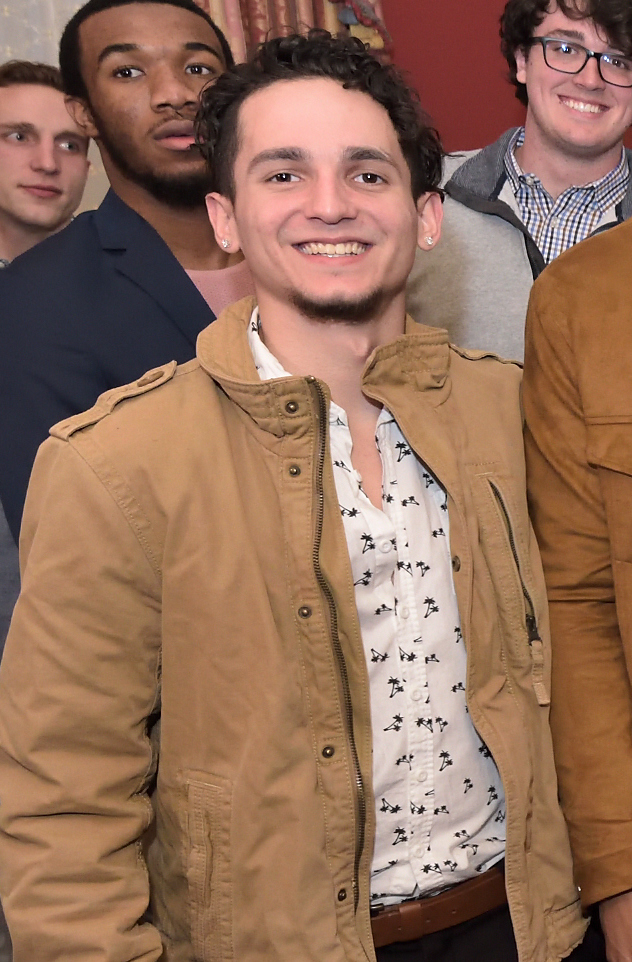 Governor Larry Hogan by Anthony DePanise at Government House, 110 State Circle, Annapolis, Maryland 21401